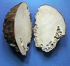 Author Florian Böhm. Ceratoporella, cut specimen.